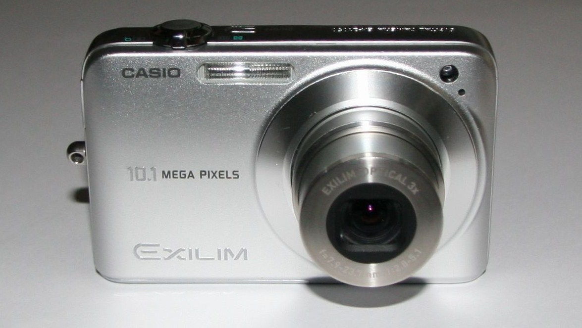 Casio EXILIM EX-Z1050